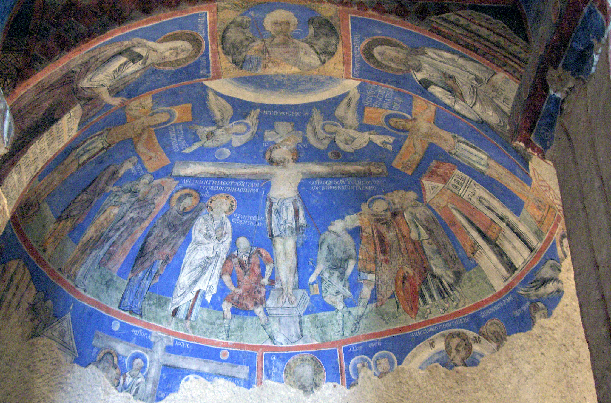 Crucifixion, early 10th century fresco in the Tokali Church; Göreme valley open air museum; Cappadocia, Turkey